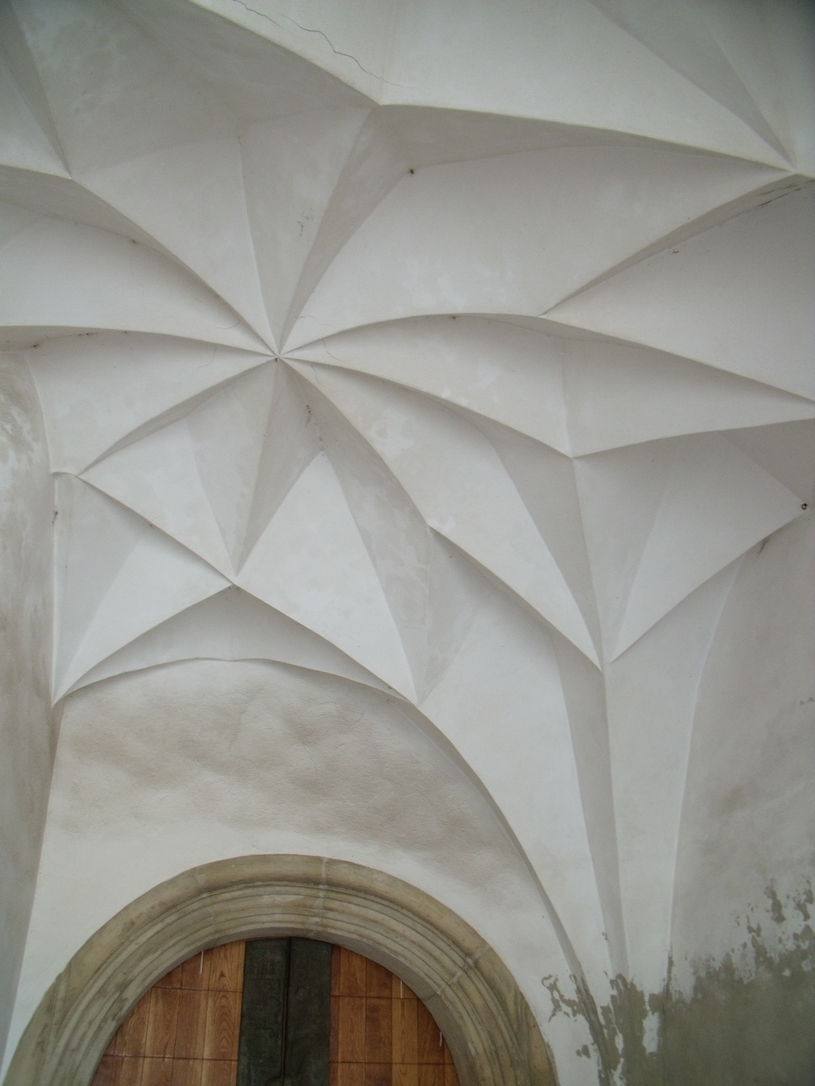 Sklípková klenba při vstupu do Městské věže